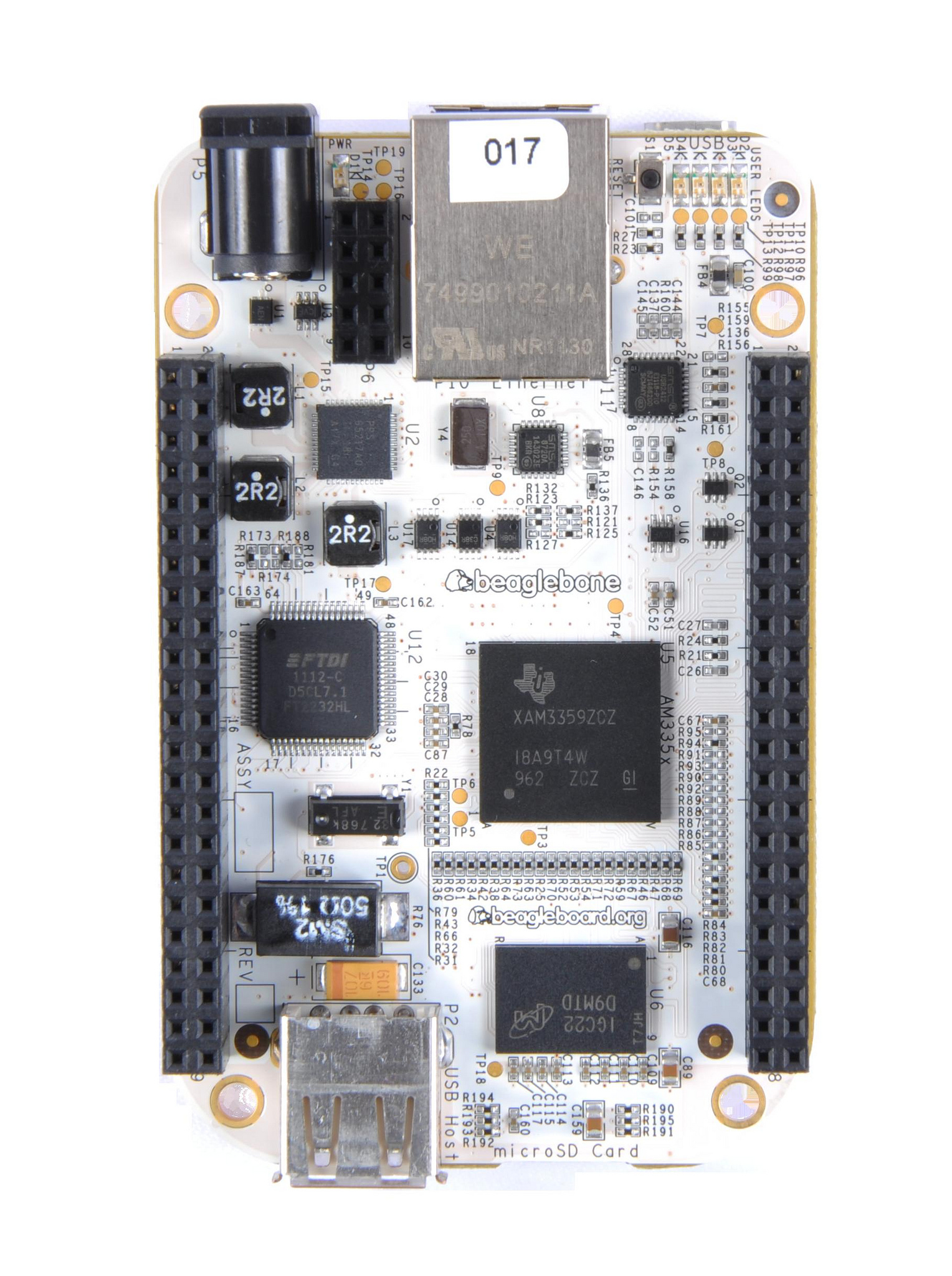 Picture of BeagleBone found on